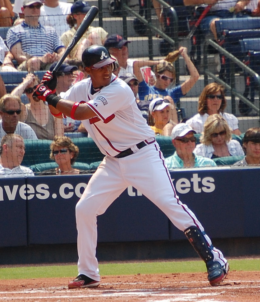 Yunel Escobar at bat for the Atlanta Braves